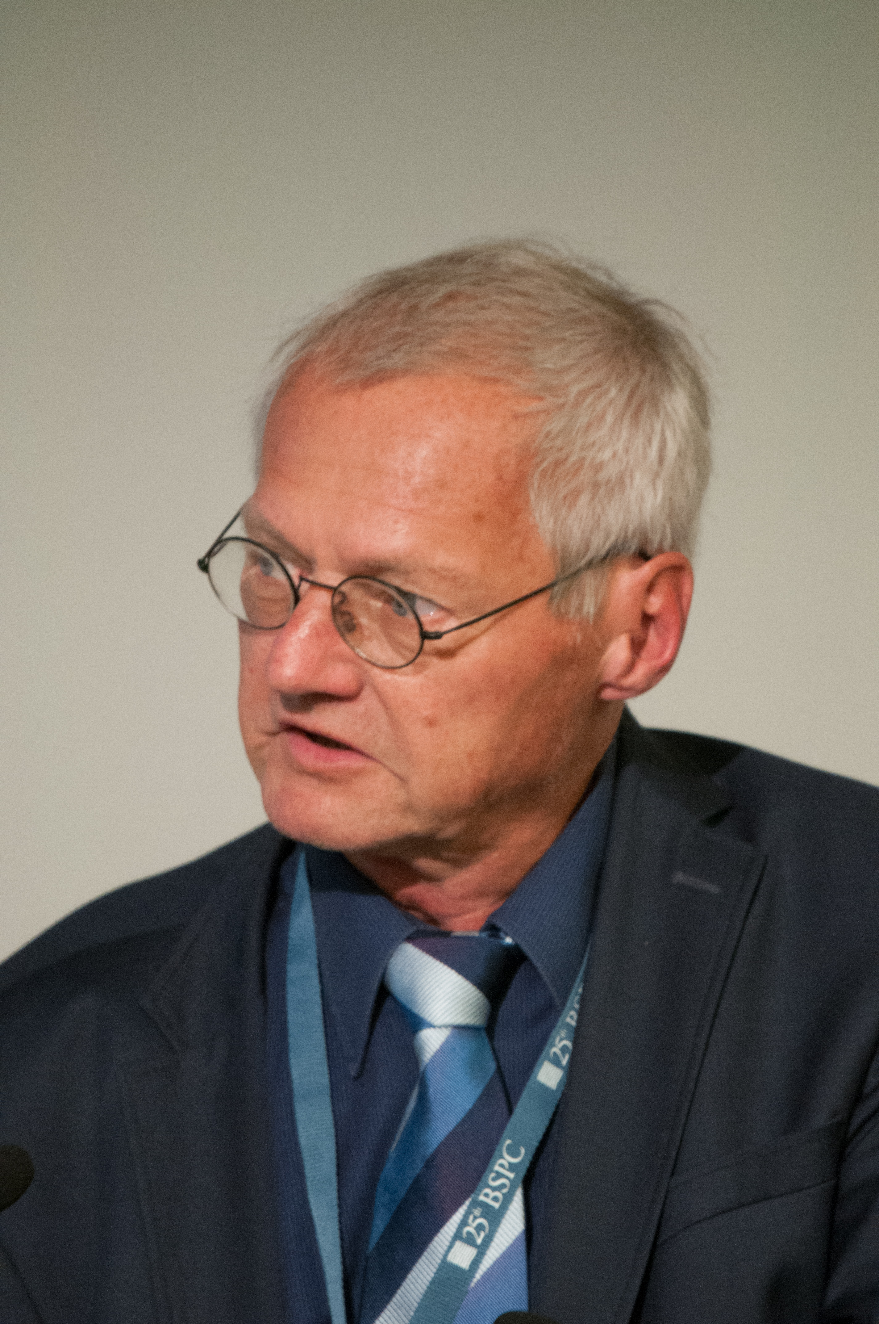 25. Baltic Sea Parliamentary Conference vom 28.-30. August 2016 in Riga. First Session: André Brie, Member of Parliament of the Landtag Mecklenburg-Vorpommern